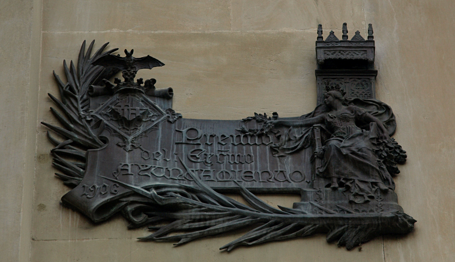 Casa Lleó Morera - Catalan Modernisme (1864, Sociedad Fomento del Ensanche - 1905, Lluís Domènech i Montaner)